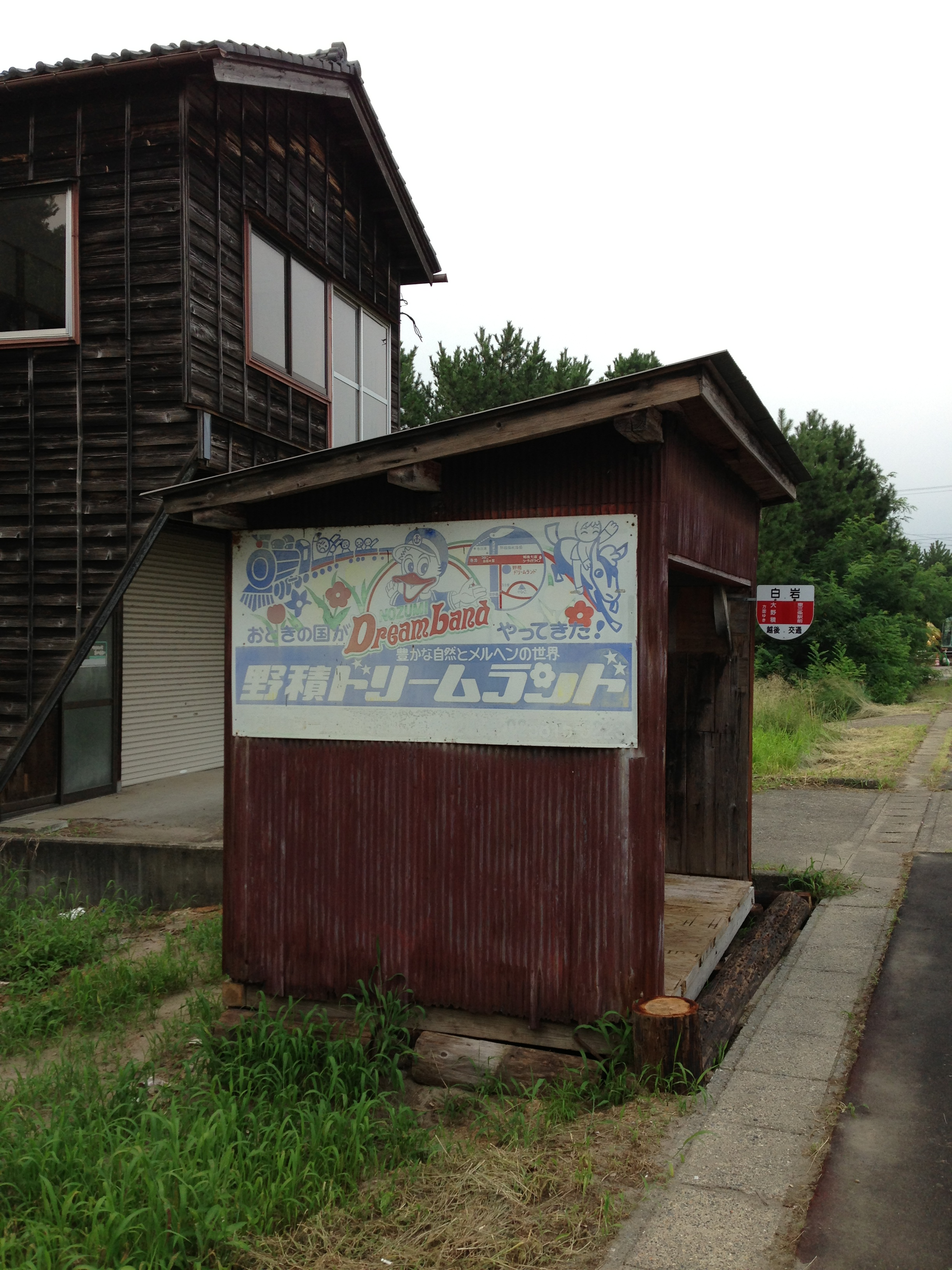 Echigo Kotsu Shiroiwa Bus Stop in Nagaoka City, Niigata Prefecture, Japan